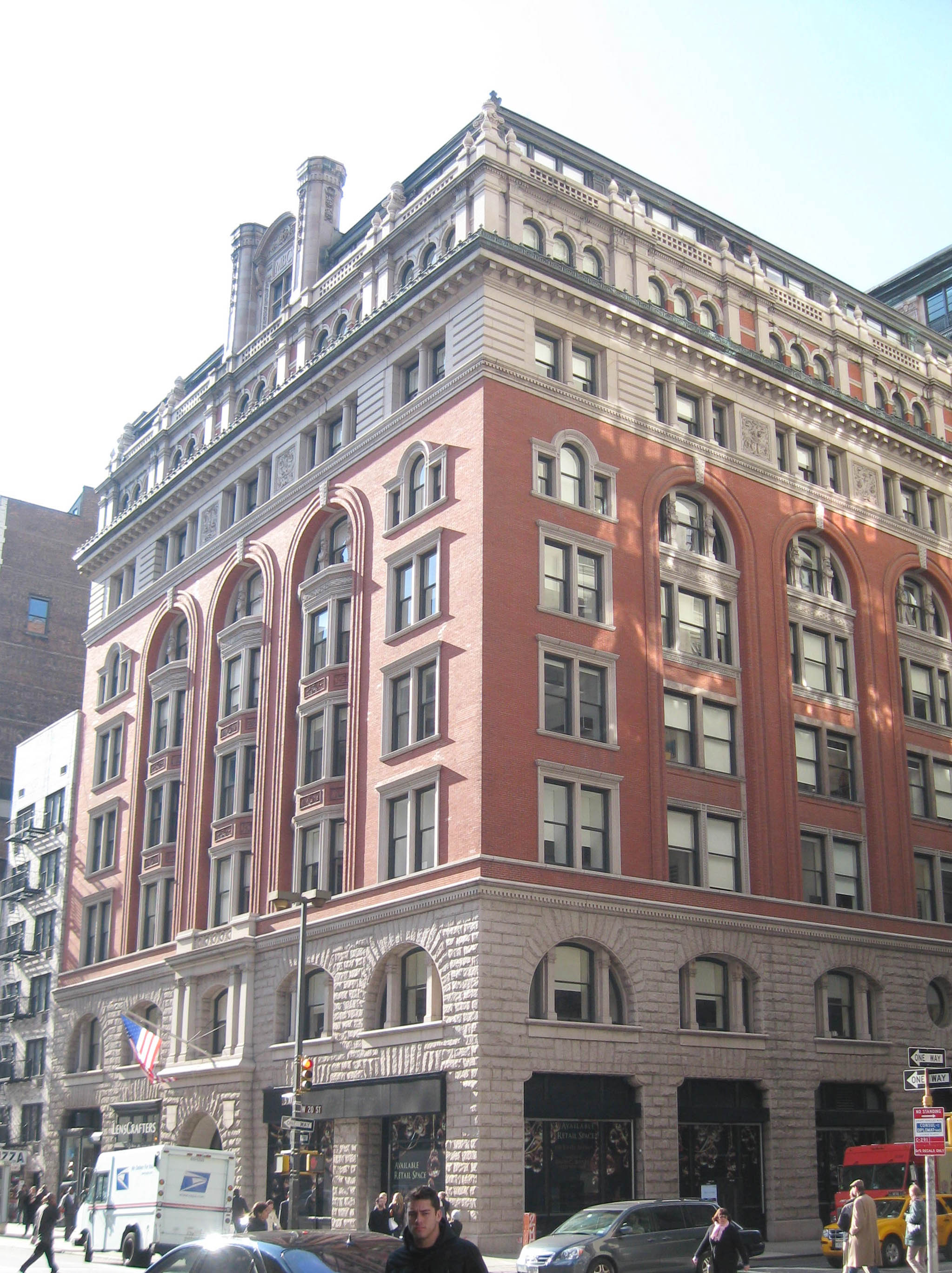 Looking southwest on a mostly sunny midday across 20th Street and Fifth Avenue at 150 Fifth Avenue, formerly the Methodist Book Concern building designed by Edward Hale Kendall. Part of the Ladie's Mile Historic District, NYCLPC designation 1989. See also File:150 Fifth Av 19 jeh.jpg.